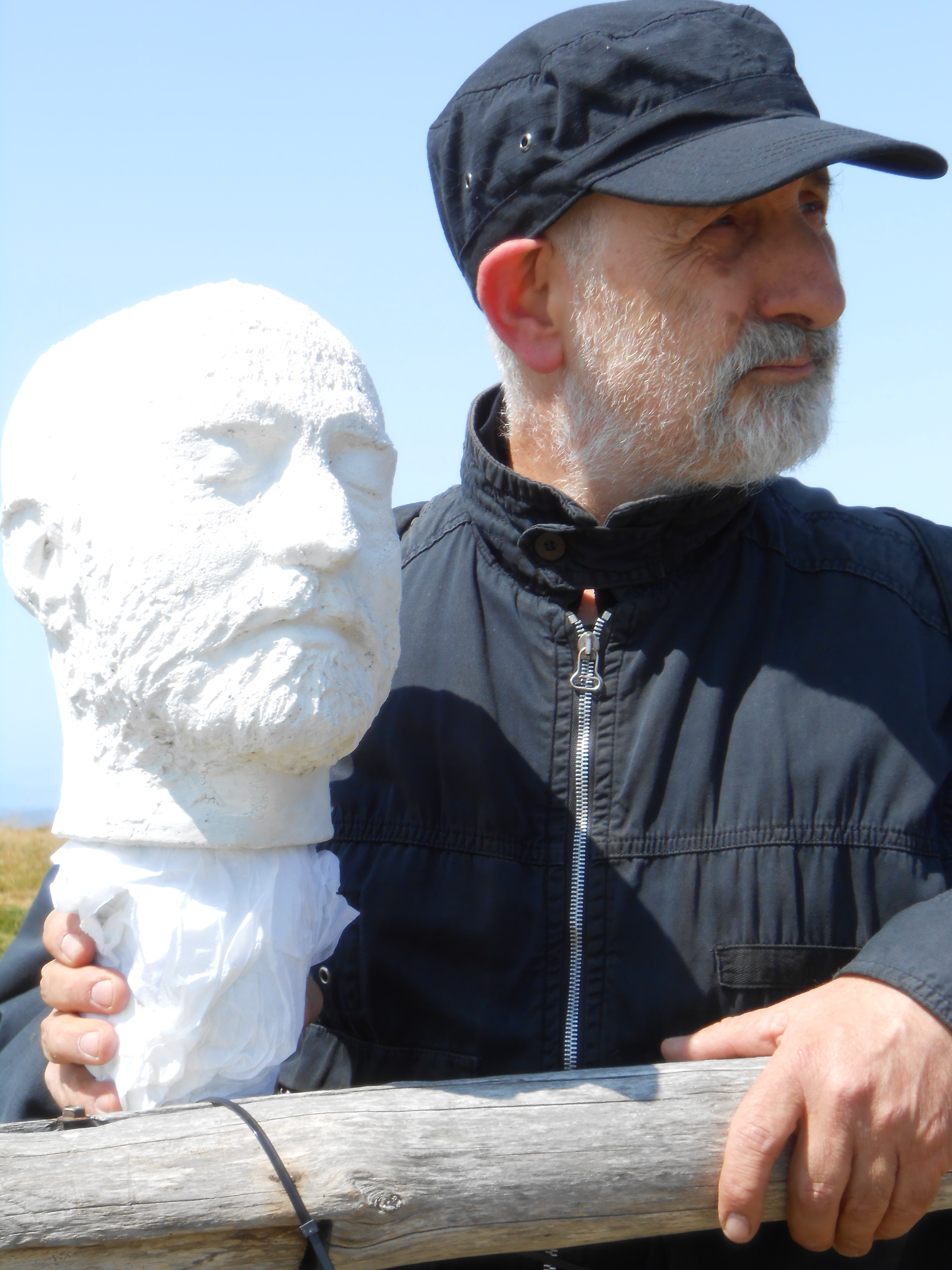 Luca De Silva